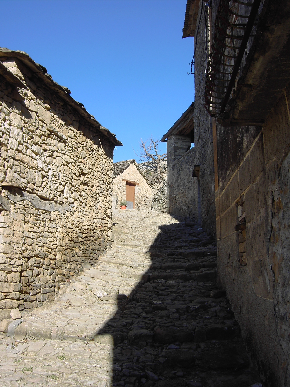 Old stony ground in l'Eripol, Huesca